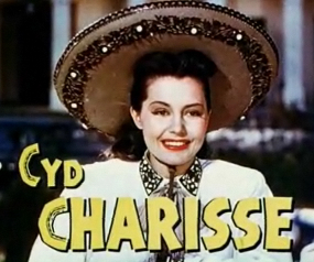 Cropped screenshot of Cyd Charisse from the trailer for the film Fiesta